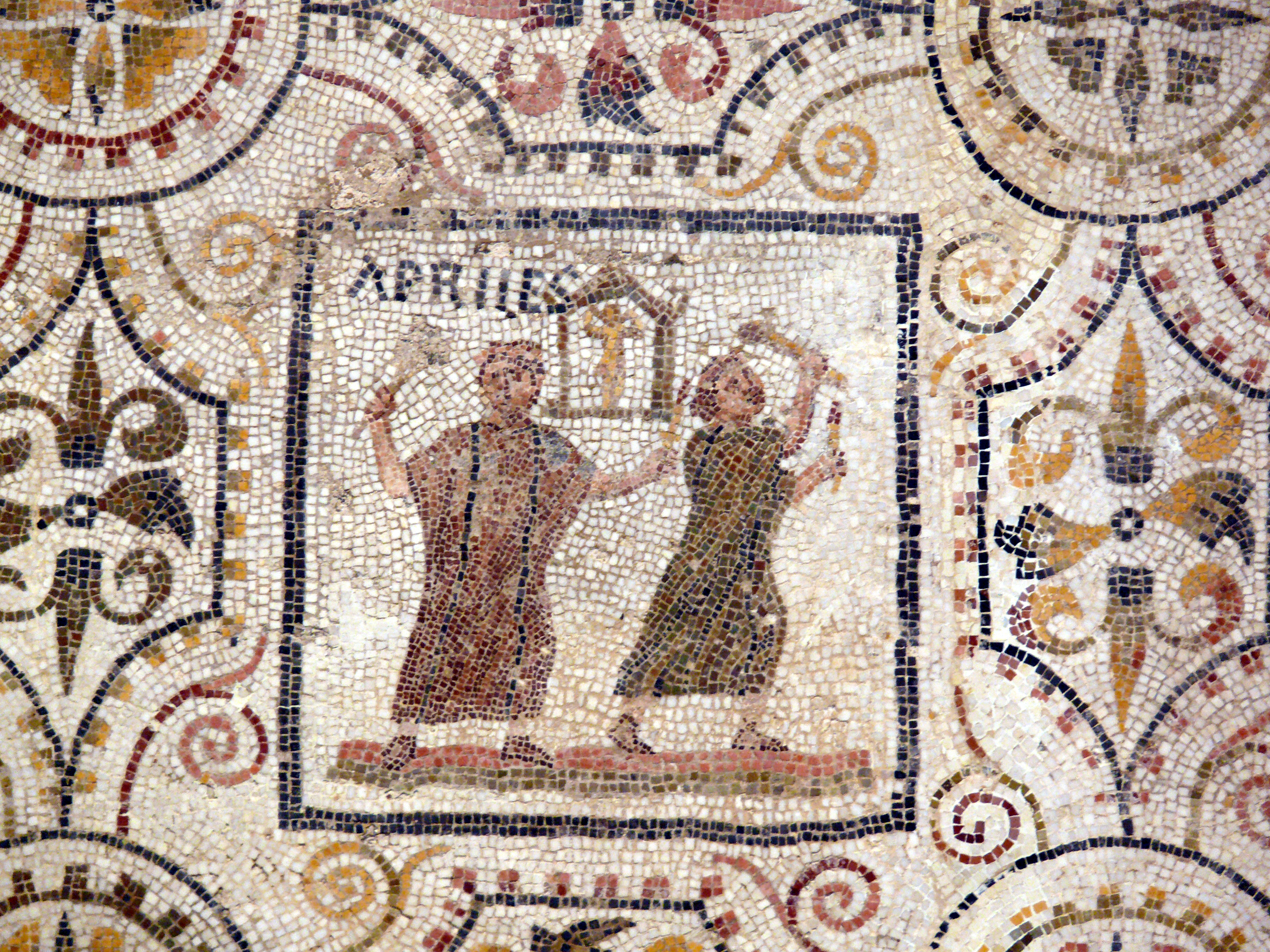 April, fragment of a mosaic with the months of the year, starting with the Roman first month March. First half third century El Jem Archeological Museum of Sousse